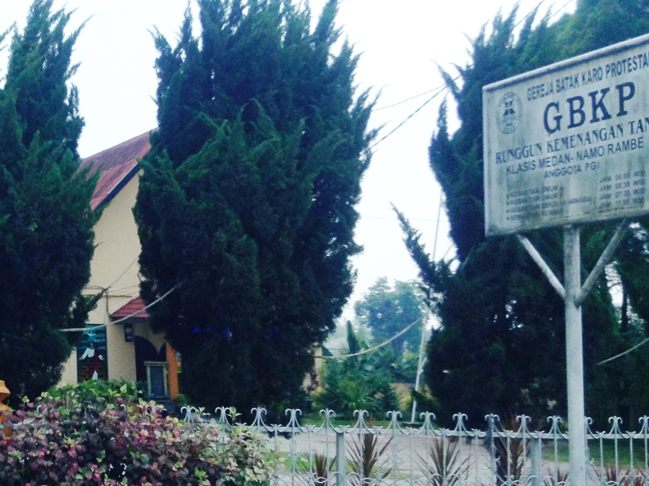 GBKP Rg. Kemenangan Tani, Klasis Medan Namo Rambe, Church in Kemenangan Tani, Medan Tuntungan, Medan